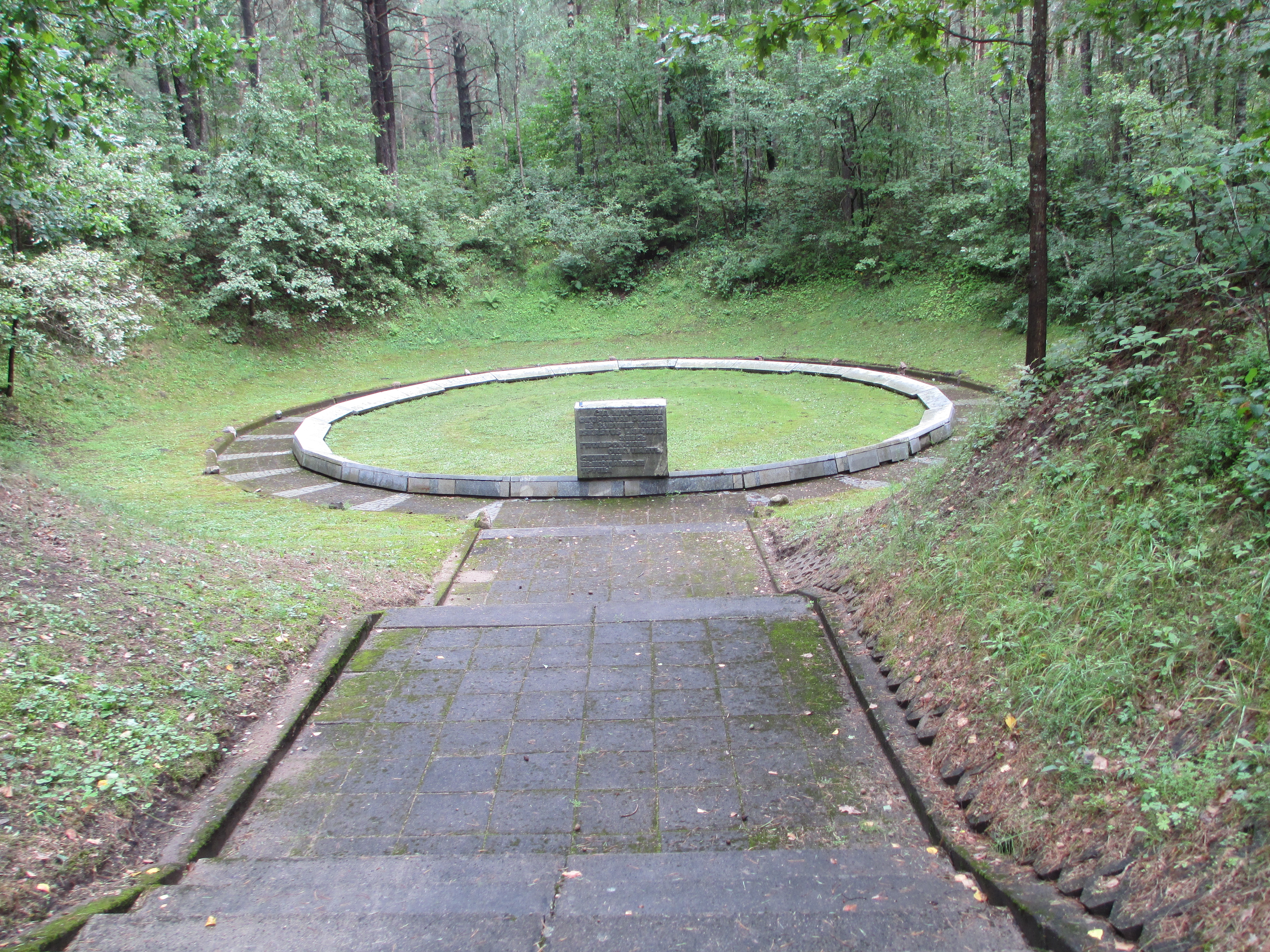 mass grave (slaughter pit) in ponar near vilnius